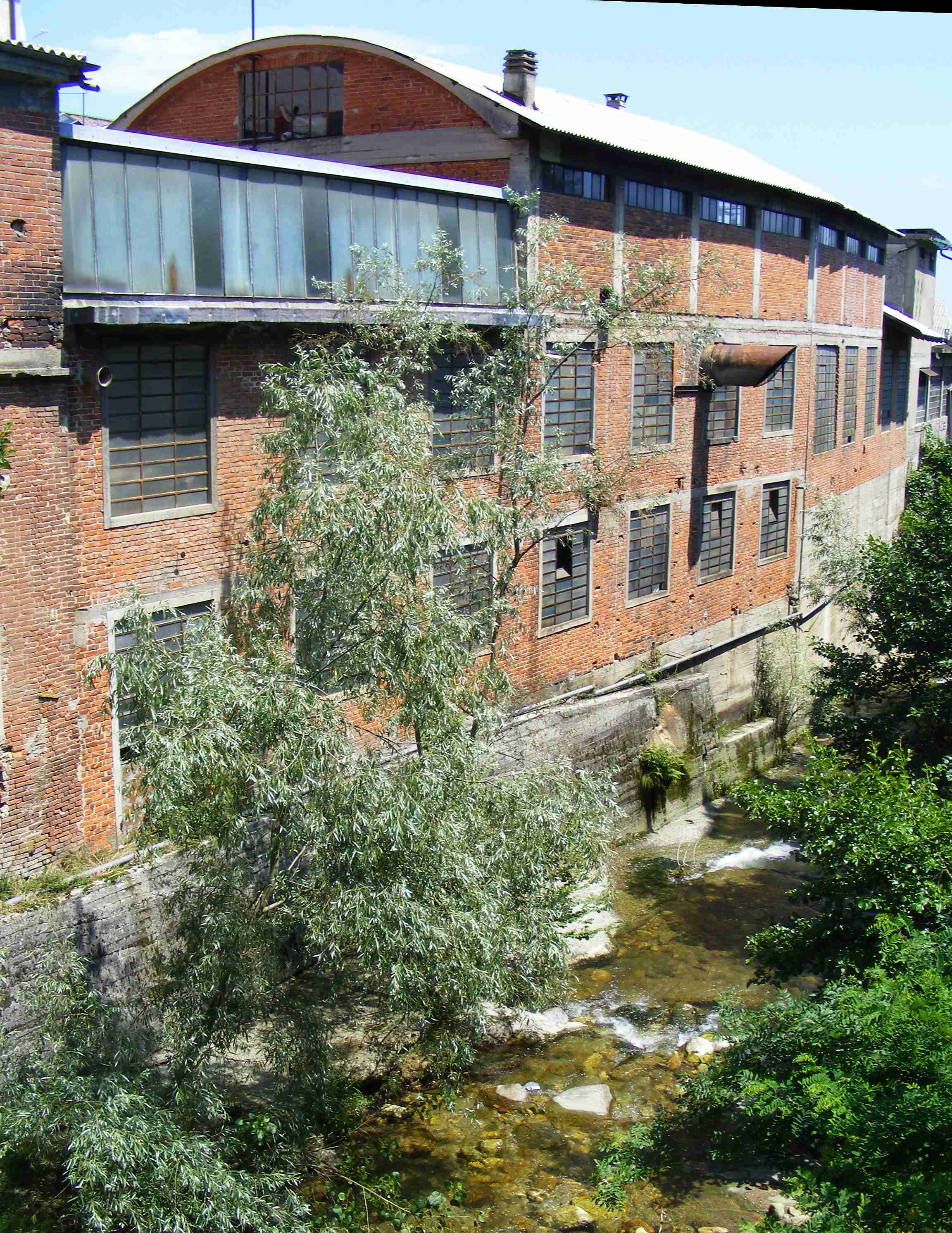 Viana creek near Forno Canavese (TO, Italy)